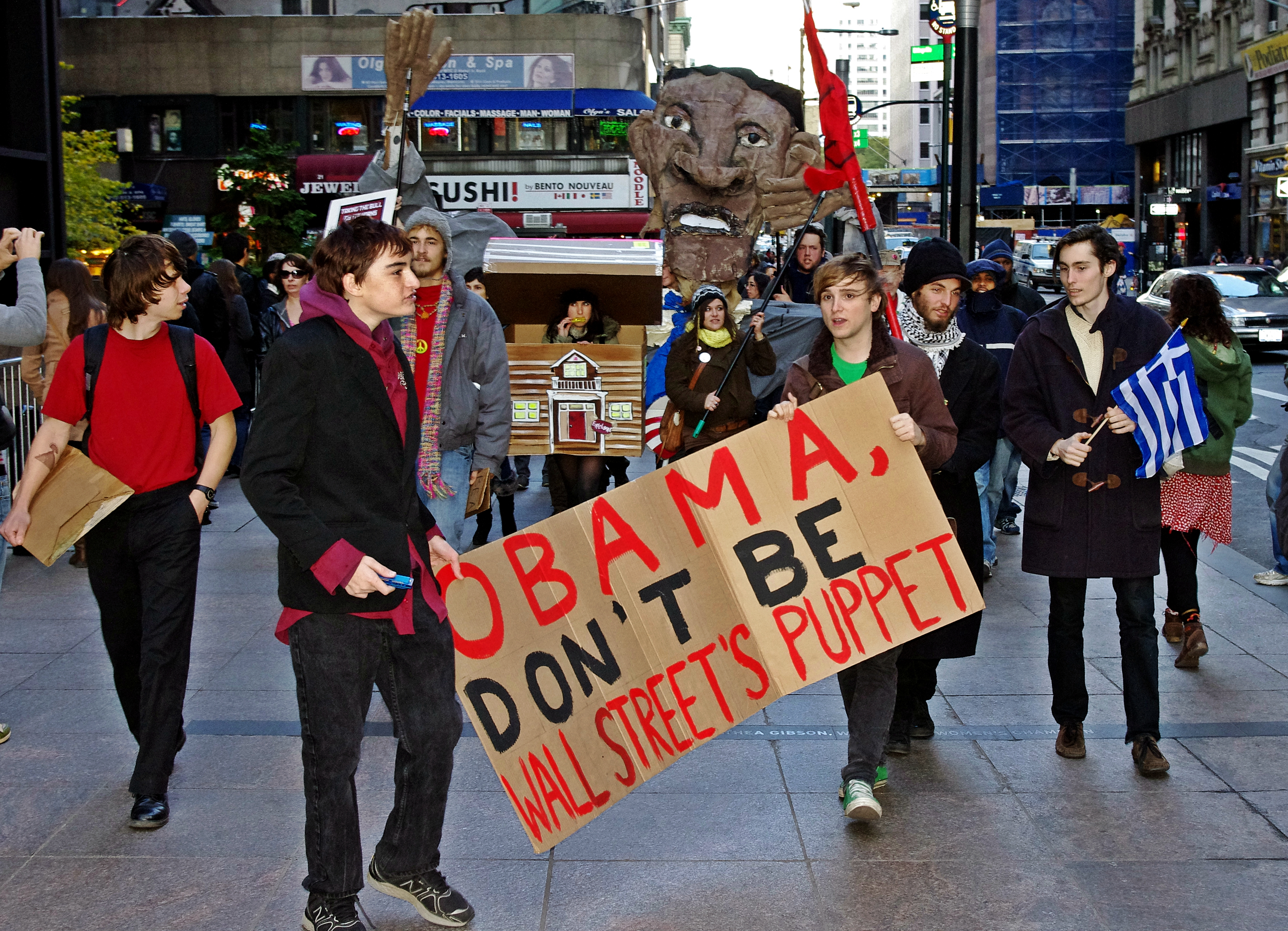 Photos from Day 50 of Occupy Wall Street in Zuccotti Park on November 5, 2011.